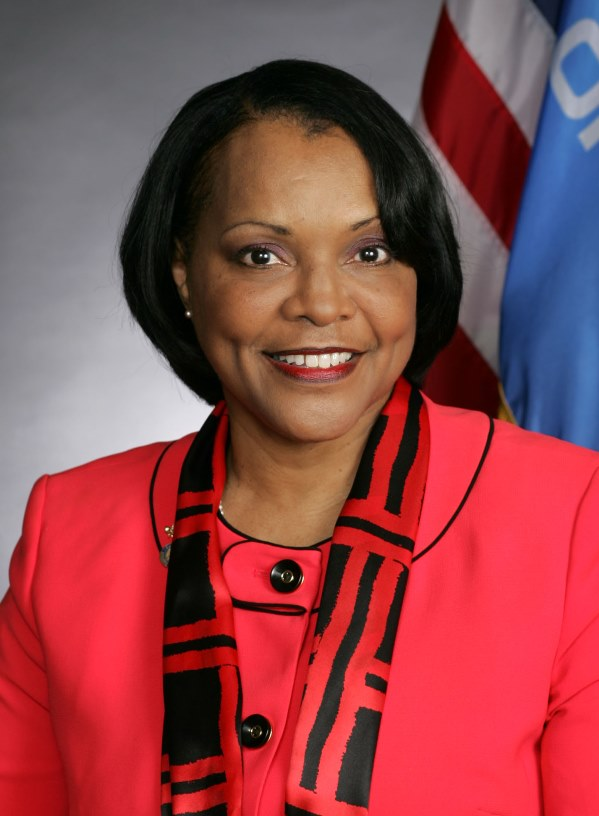 State Senator Constance Johnson